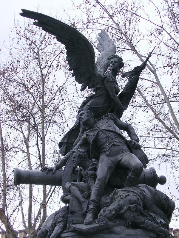 Heroes of The Second of May by Aniceto Marinas.